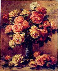 Roses in a vase painted by Pierre-Auguste Renoir